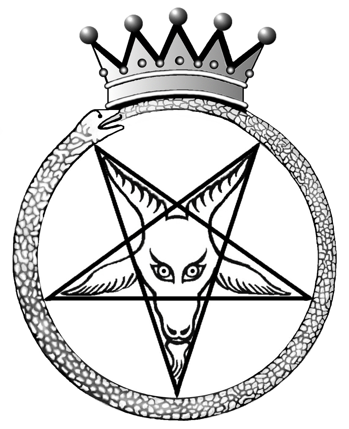 Crown Baphomet - Seal of Satan. Note: The original goat pentagram first appeared in the book La Clef de la Magie Noire by French occultist Stanislas de Guaita, in 1897. This symbol would later become synonymous with Baphomet, and is commonly referred to as the Sabbatic Goat.